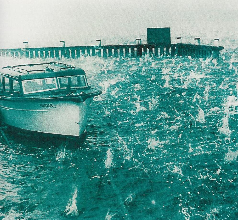 Description: A boat at Rose Bay during the en:1947 Sydney hailstorm License: Public domain, ineligable for copyright (see Template:PD-Australia, shown below, criteria A)